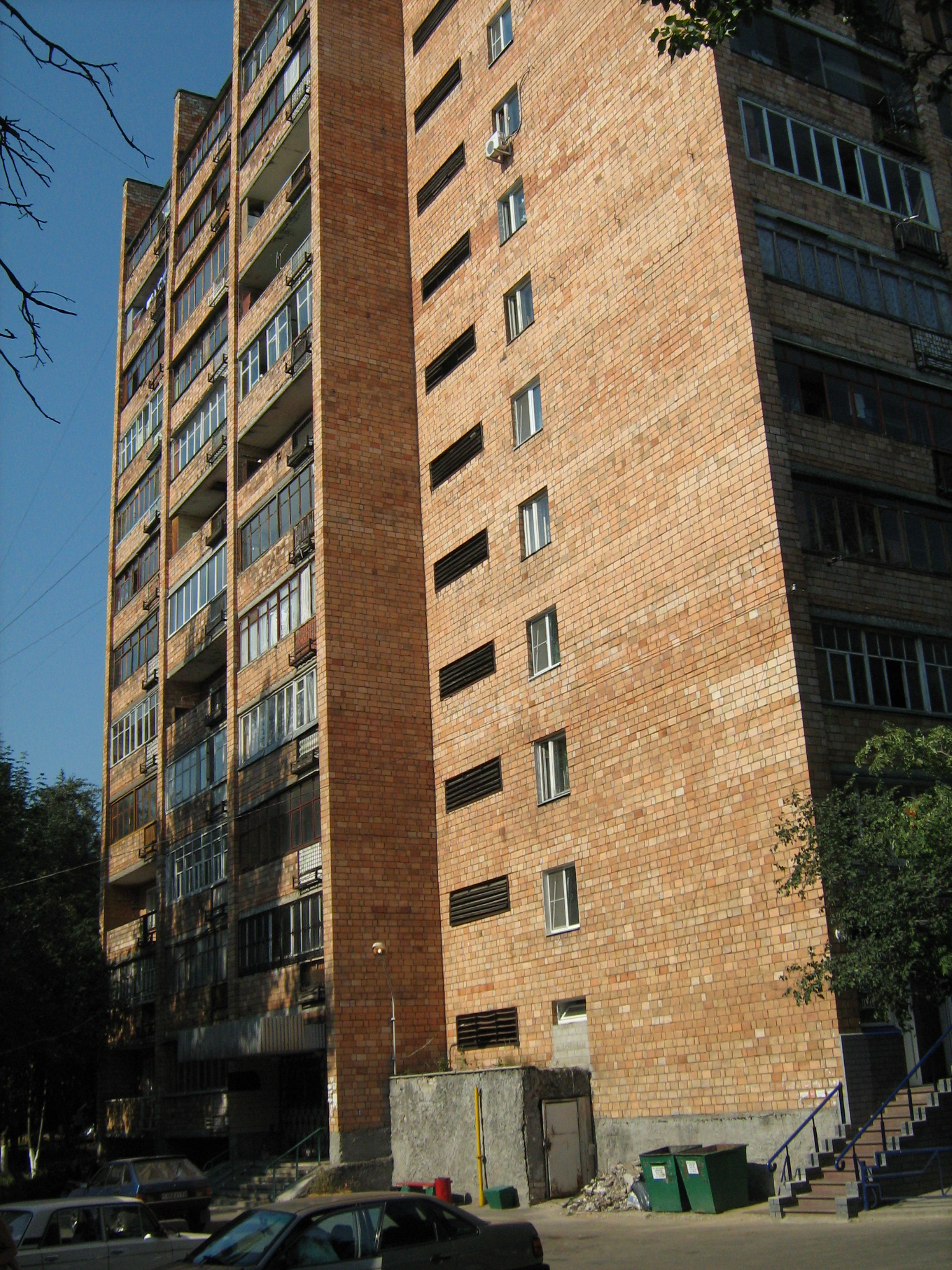 The apartment building in the Scherbinki neighborhood of Nizhny Novgorod where A.D. Sakharov lived in exile 1980-85. His apartment is now a museum.